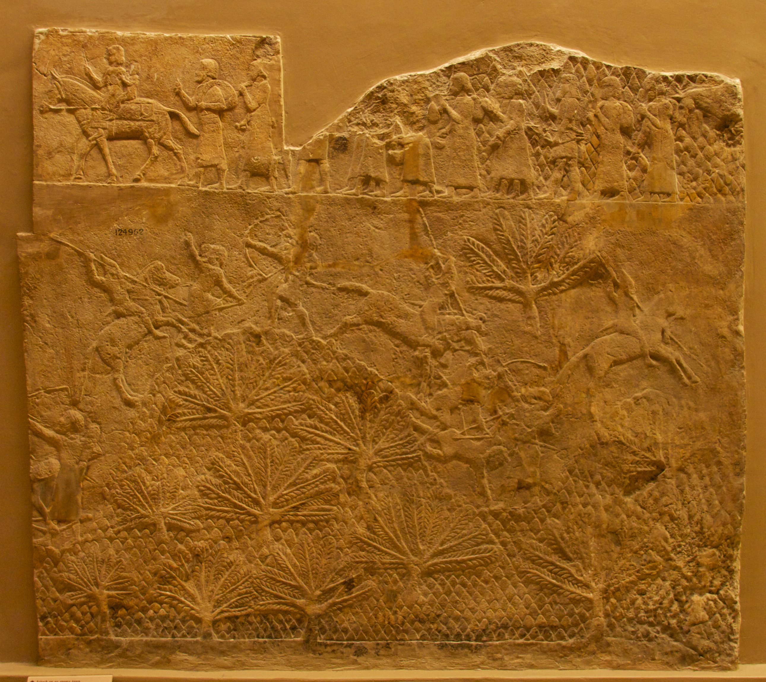 Battle scene. Assyrian, about 700-692 BC. From Nineveh, South-West Palace, Court VI, panel 13. This scene shows Assyrian caverly in action, probably in southern Iran against the Elamites or their allies. Above, prisoners are led away. WA 124952-130724